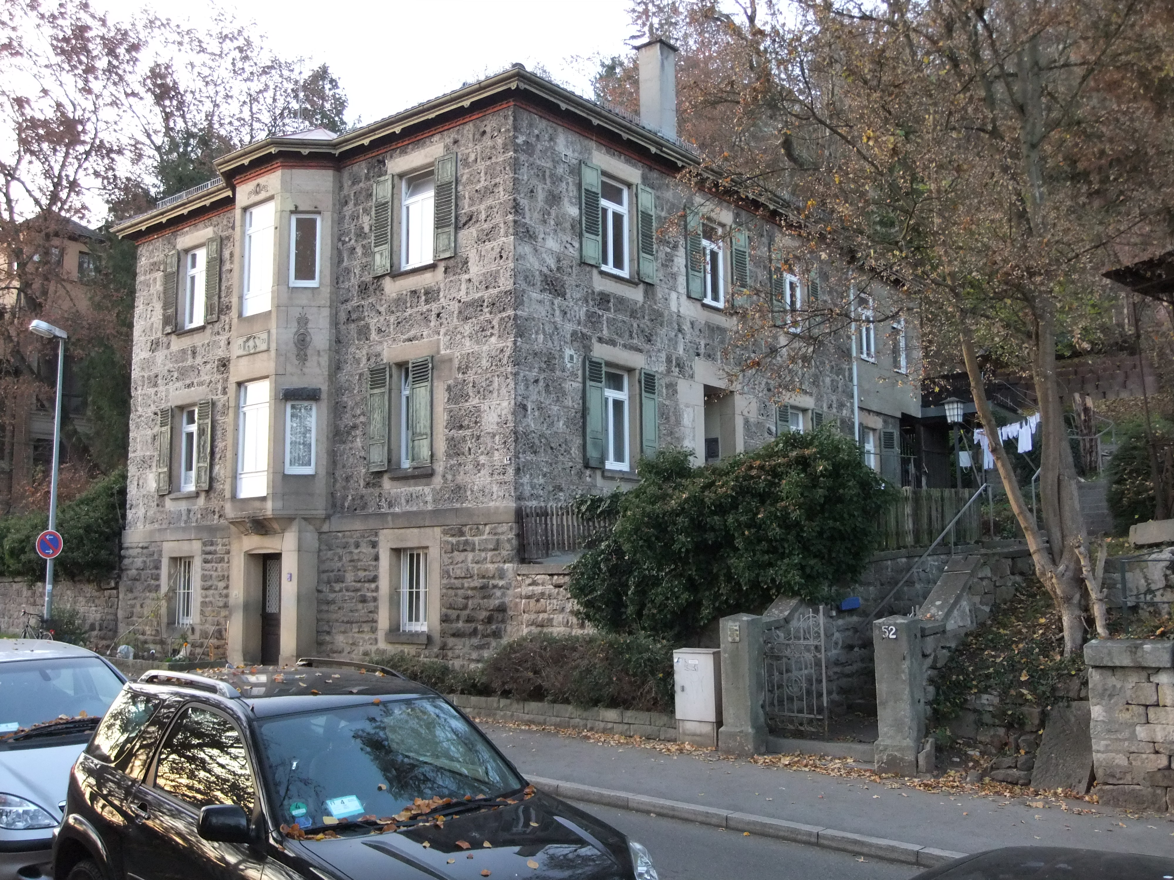 Mathilde Weber's house in the Neckarhalde 52, Tübingen (build 1870, state 2011)